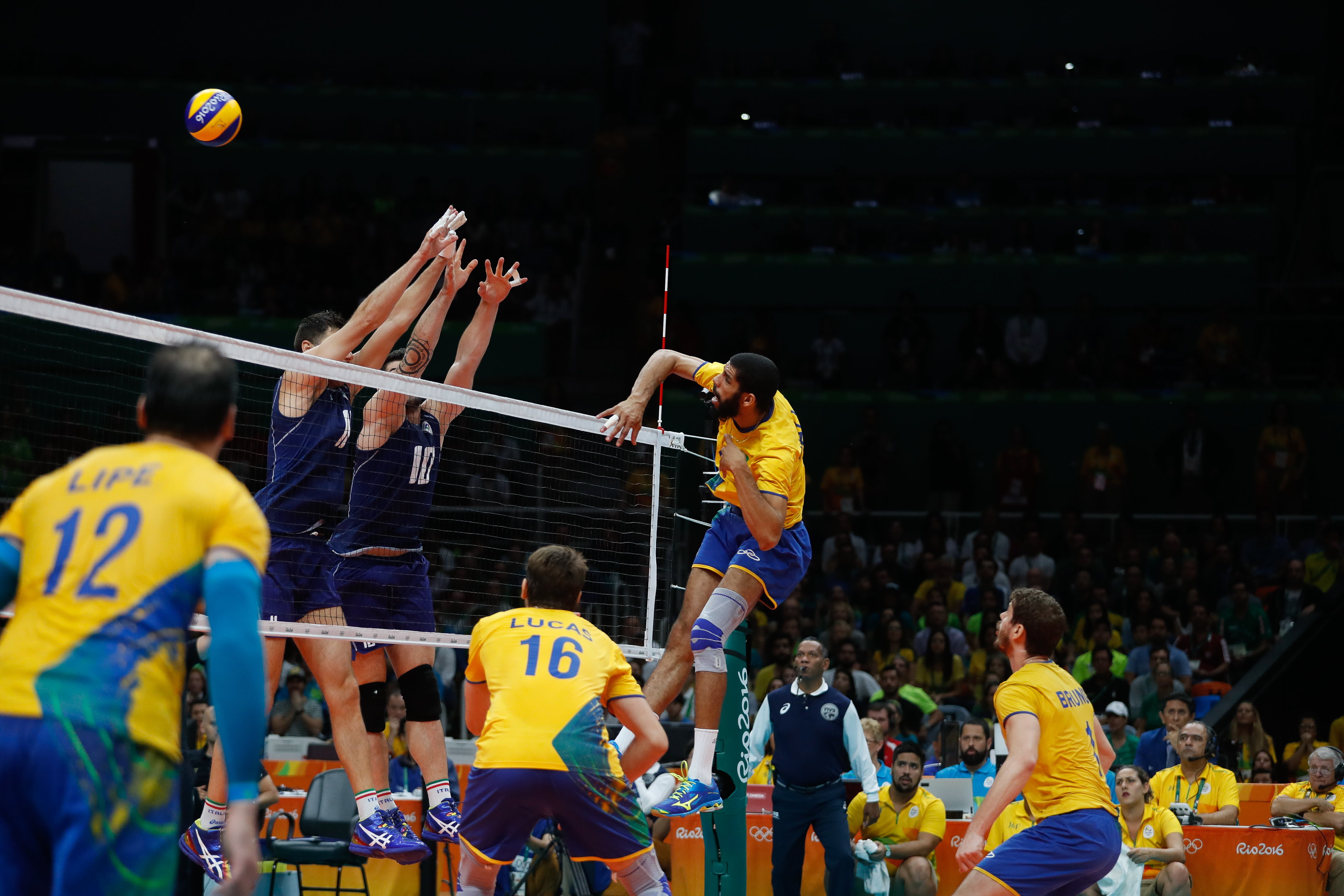 Rio de Janeiro - Seleção brasileira de vôlei disputa contra a Itália a final dos Jogos Olímpicos Rio 2016 no Maracanãzinho(Fernando Frazão/Agência Brasil)